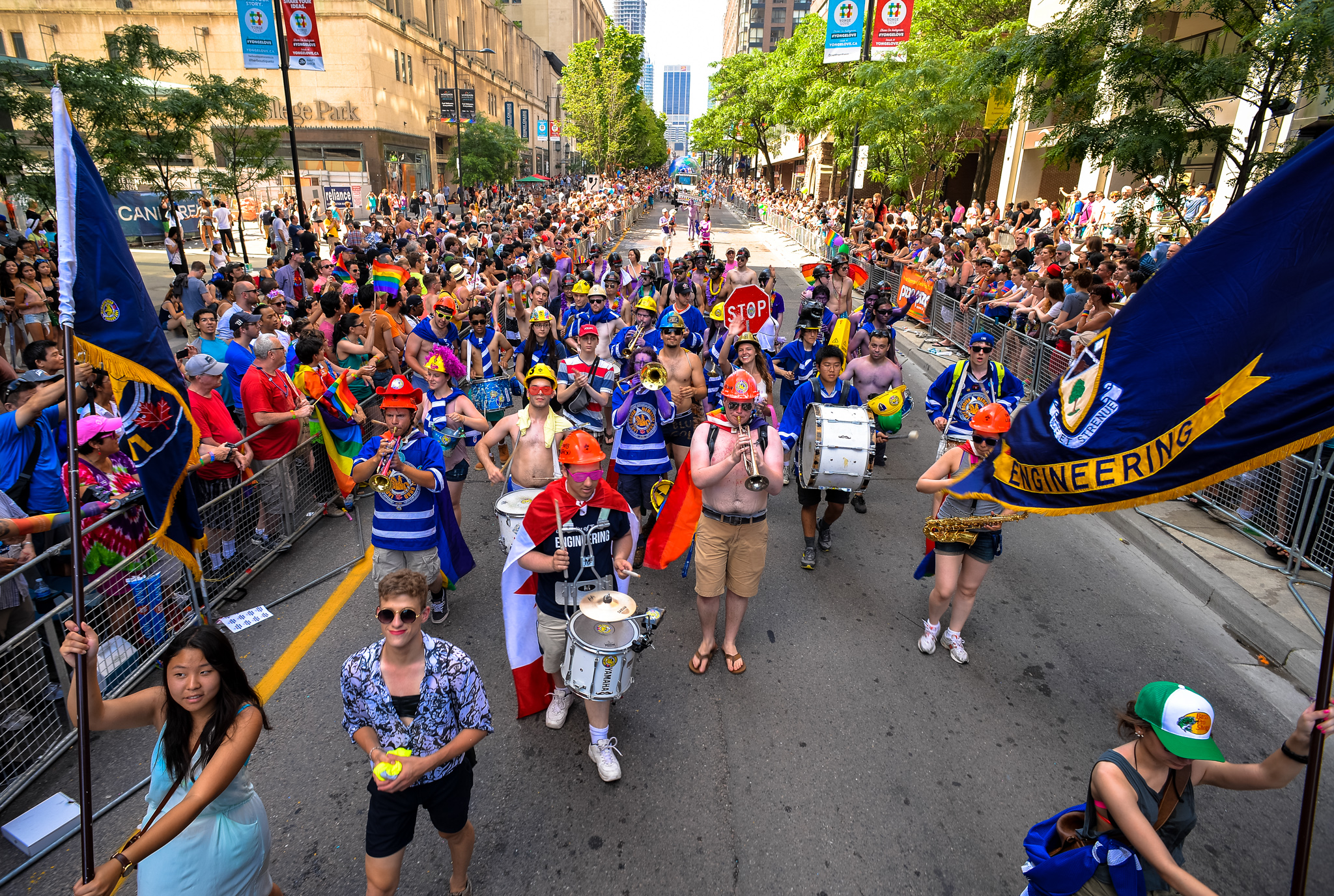 UofT's Engineering's Energetic Skule Community in the Pride parade. LGMB + Canon Guard + LGBTQASE + Skule Community & Friends!